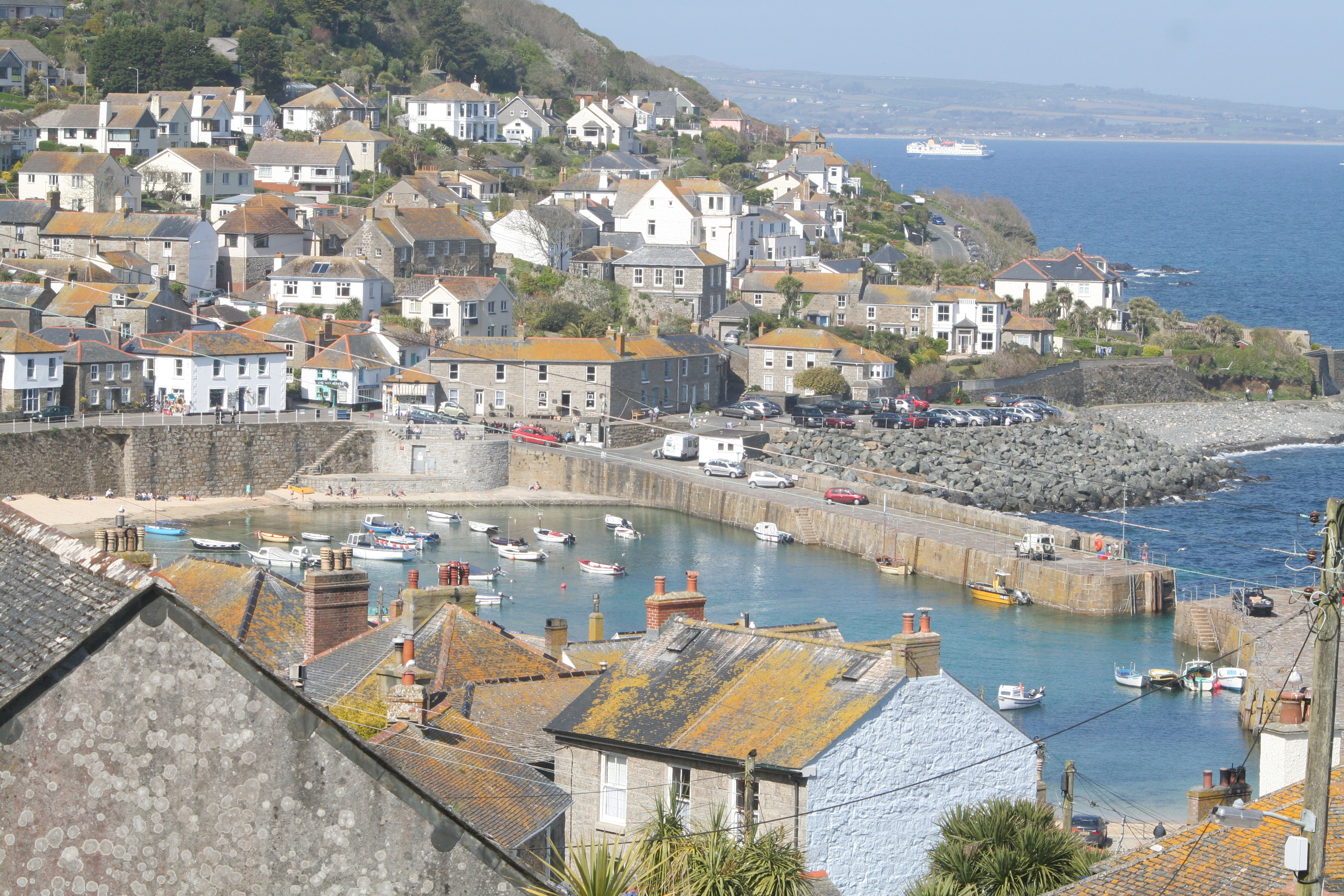 view of Mousehole in Cornwall from the west